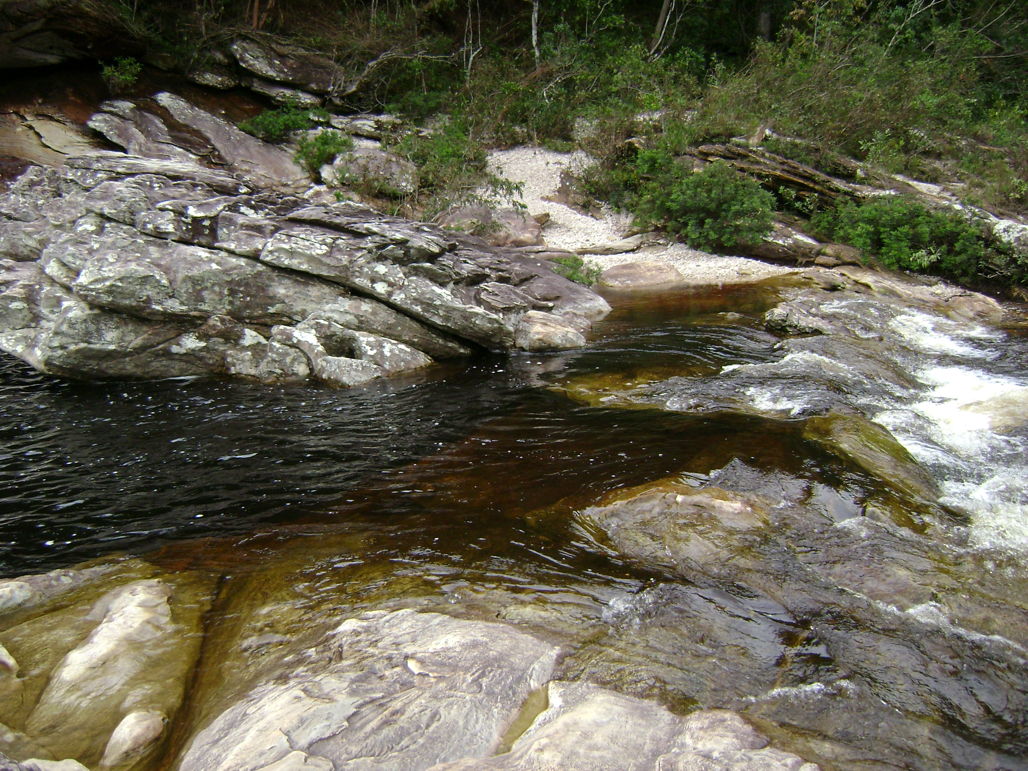 Poço Pari, in Tabuleiro